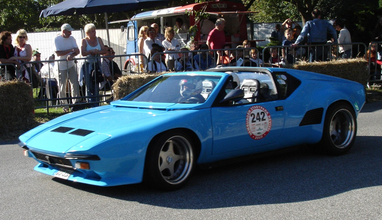 A De Tomaso Pantera GT5-S, with targa-roof conversion, taken at 2005 Hamburg Stadtpark Revival